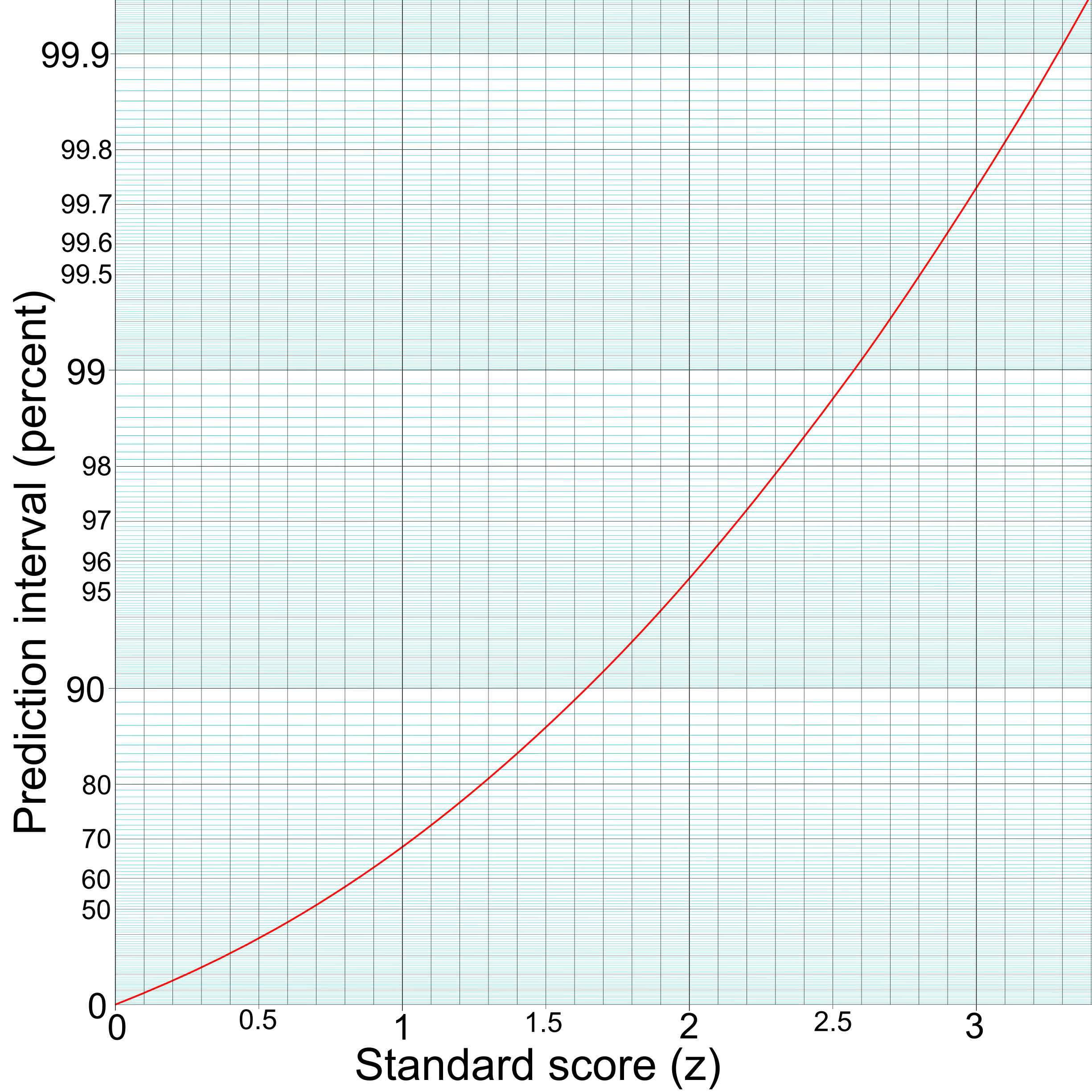 Prediction interval (on the y-axis) given from the standard score (on the x-axis), in the situation of known mean and variance. The y-axis is logarithmically compressed (but the values on it are not modified). Original Excel file with data and diagram is located at: Standard score and prediction interval.xls